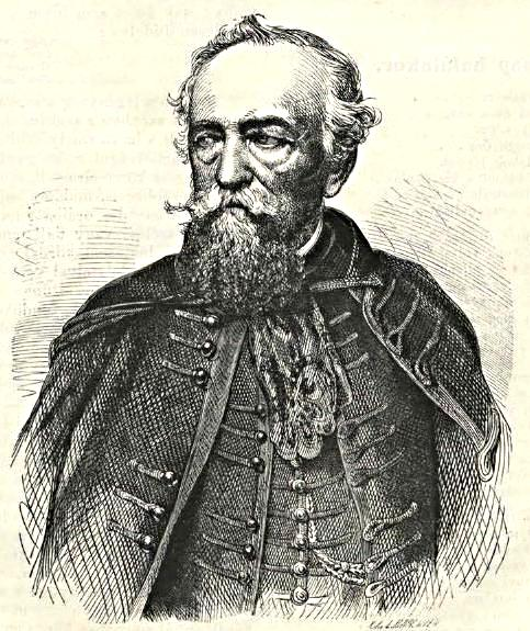 Portrait of the paleontologist Ferenc Kubinyi